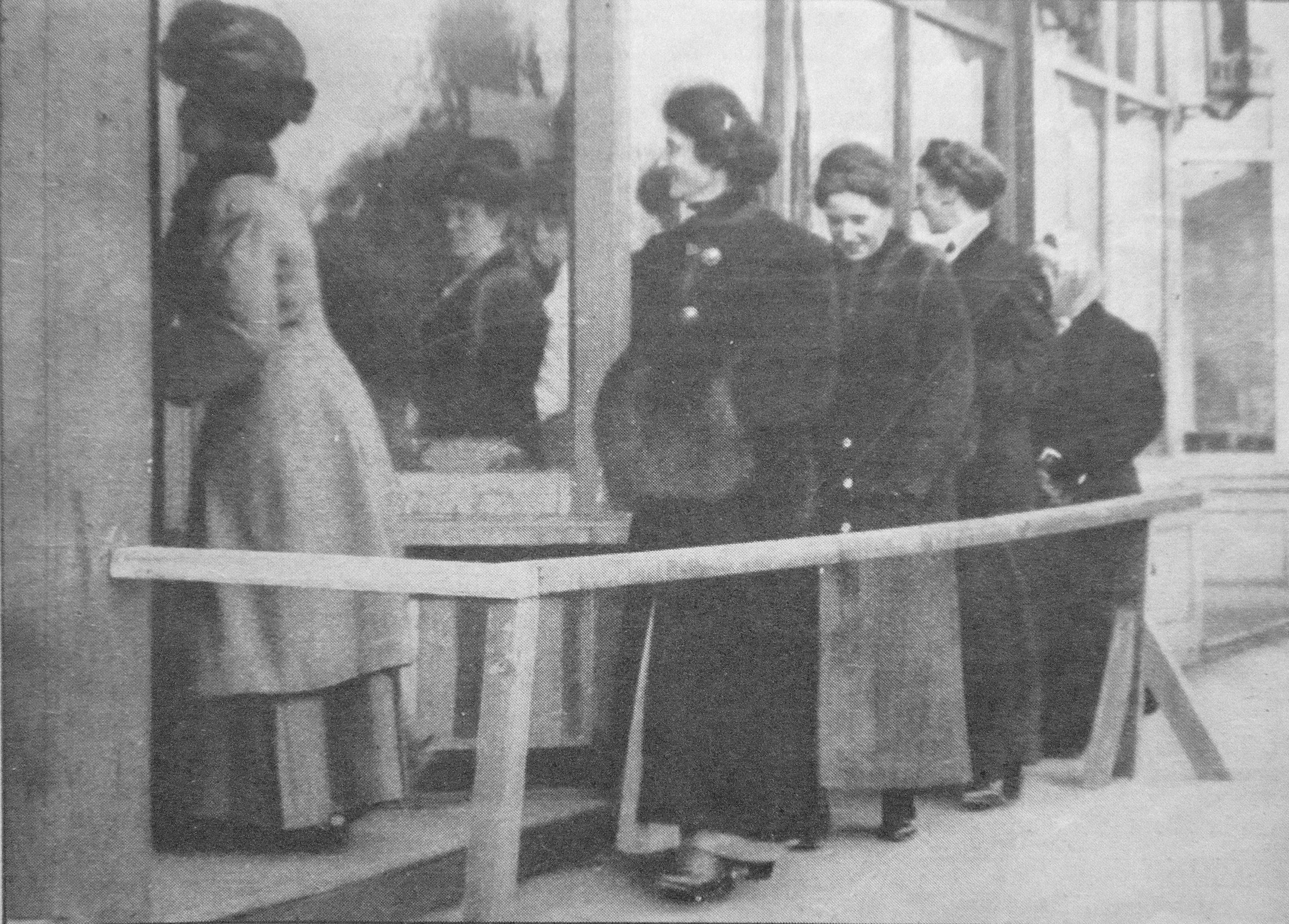 Newly enfranchised women voting in the recall election of Hiram Gill as mayor of Seattle, Washington, February 1911.